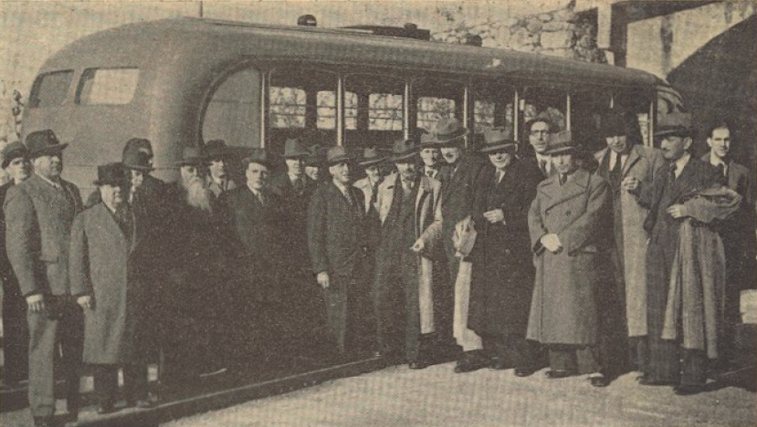 Inauguration ceremony of an autorail, at the Vouzela Station, in the Vouga Valley Railway, in Portugal. This image was originally published in the Gazeta dos Caminhos de Ferro No. 1271, of the 1st December 1940, and scanned by the Hemeroteca Municipal de Lisboa.